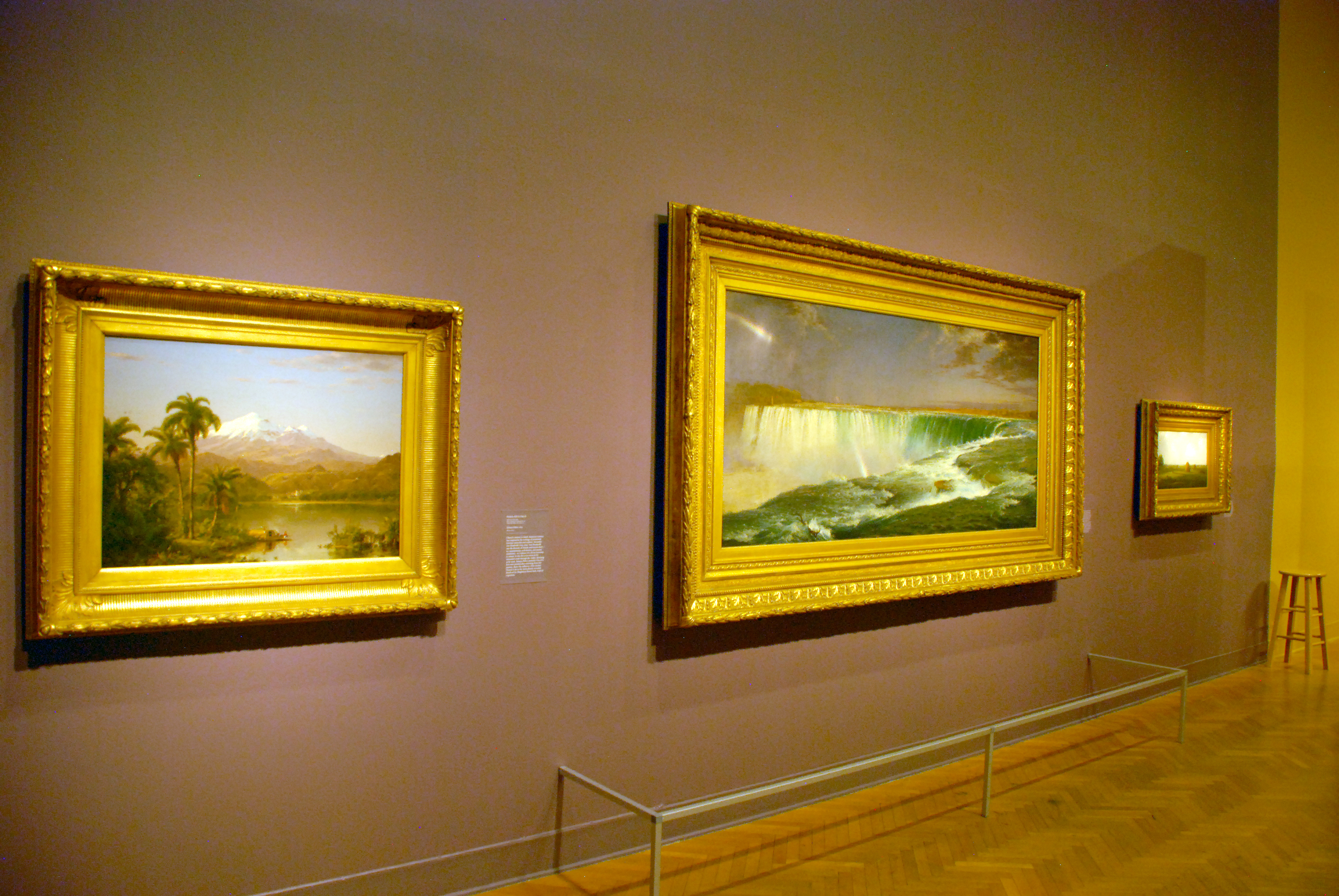 Niagara (by Frederic Edwin Church) and other paintings in the Corcoran Gallery of Art (Washington, D.C.)